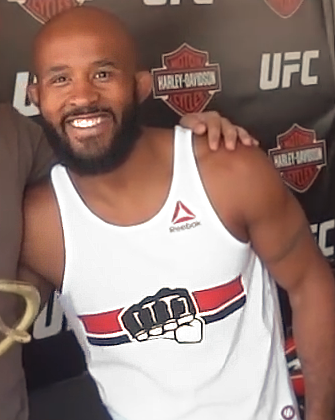 Demetrious "Mighty Mouse" Johnson posing for a photo